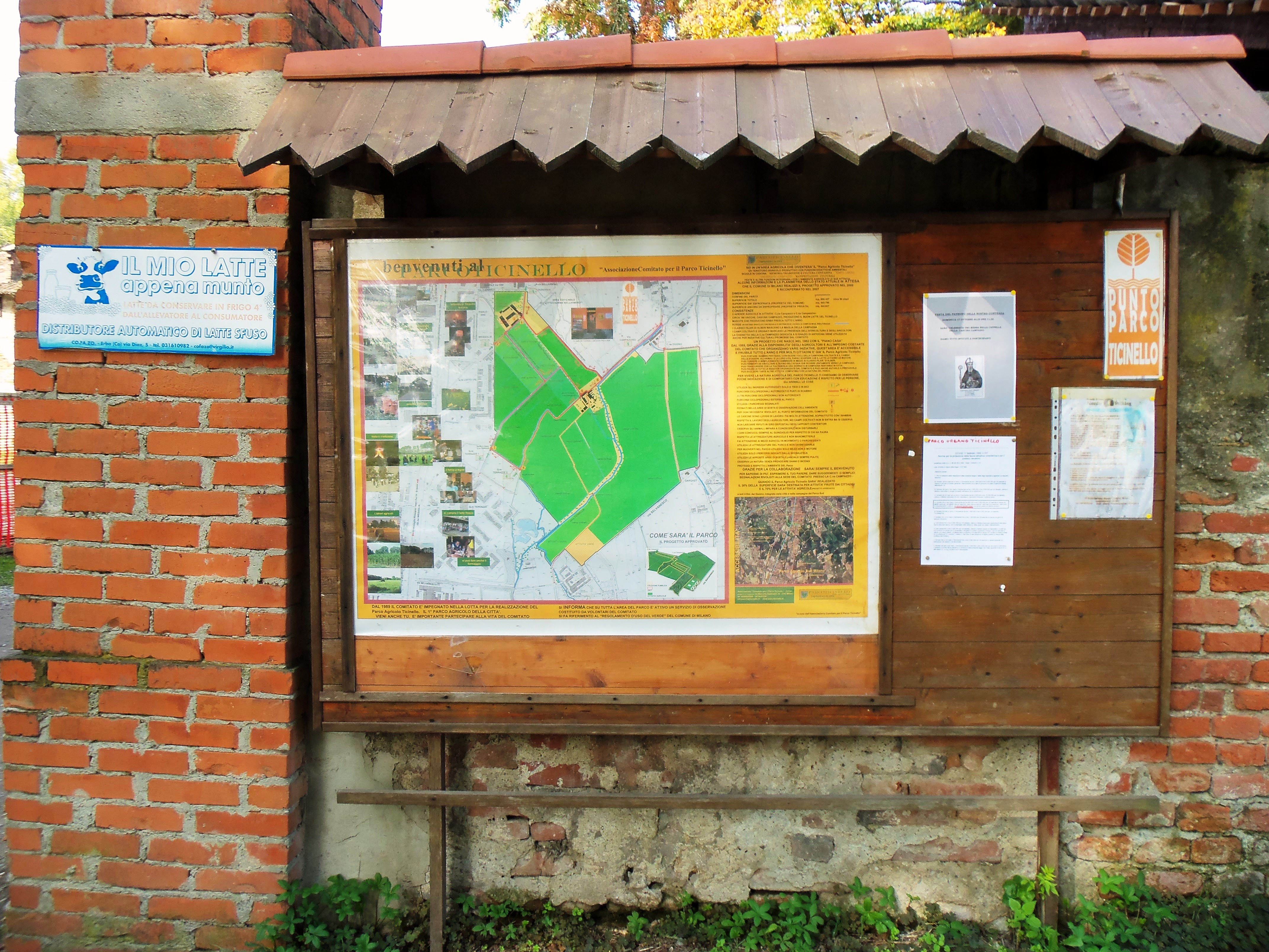 Milano, Ticinello park, notices for visitors by Campazza entrance